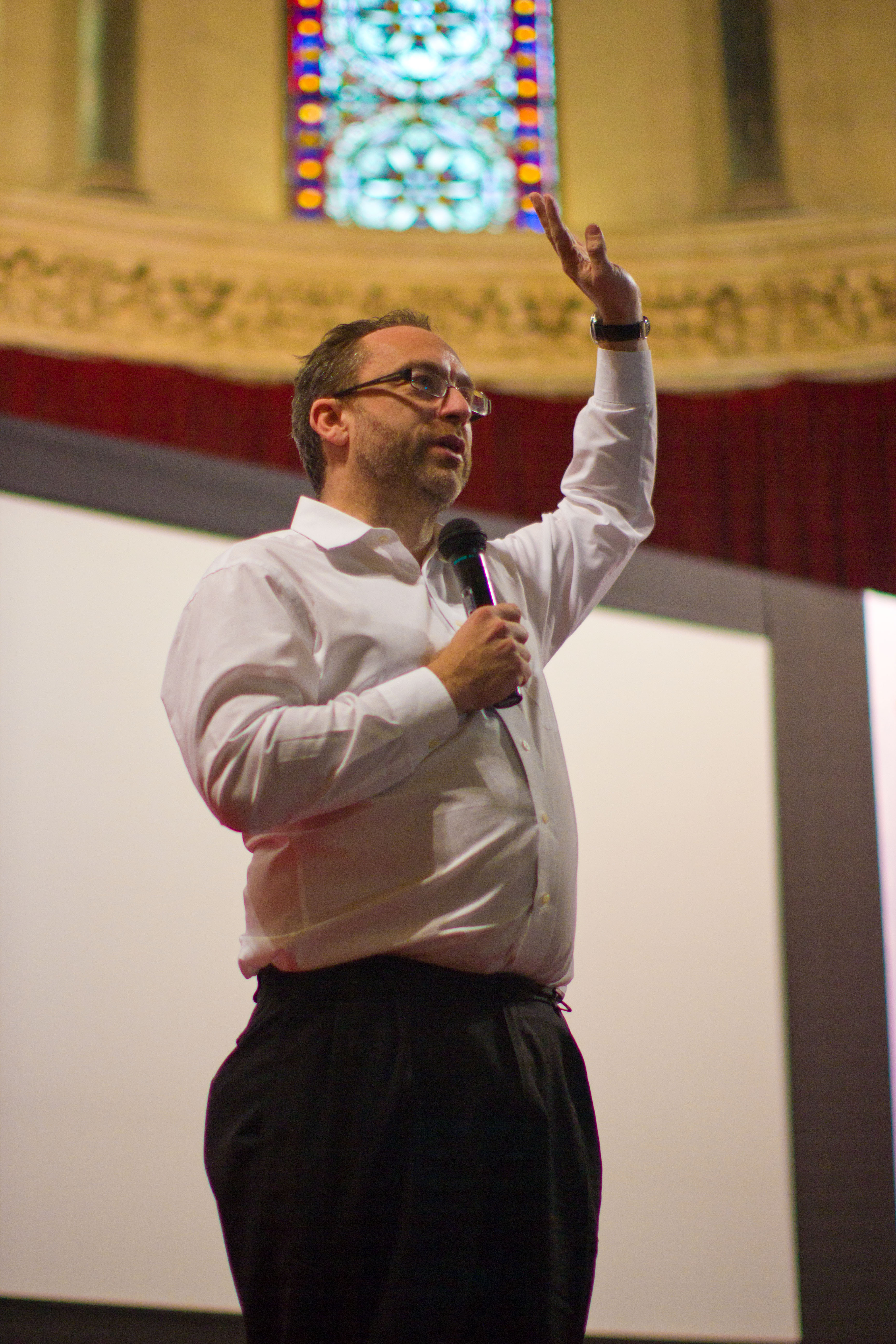 Wiki Conference India 2011